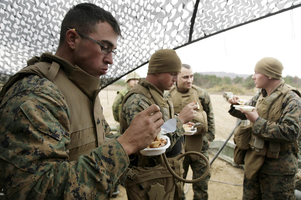 Marines with Gun Team Five eat Japanese military rations at Camp Sendai, Japan, Nov. 23 in the Ojojihara Maneuver Area during Artillery Relocation Training Exercise 10-3 Ojojihara. The Marines traded their lunch rations with an observer from the Japanese Ground Self Defense Force. The Marines are with Battery B, 3rd Battalion, 12th Marine Regiment, 3rd Marine Division, III Marine Expeditionary Force. 3rd Bn., 12th Marines is conducting live-fire artillery training to maintain operational readiness of the artillery battalion in support of the U.S. – Japanese security alliance.